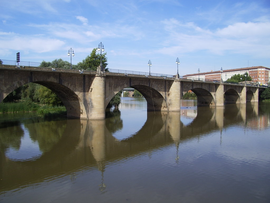 "Stone Bridge" over the Ebro River in Logrono